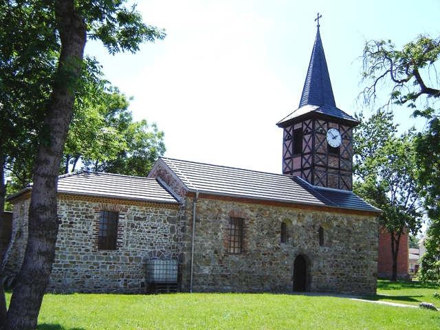 Church in Gommern-Wahlitz (Saxony-Anhalt)